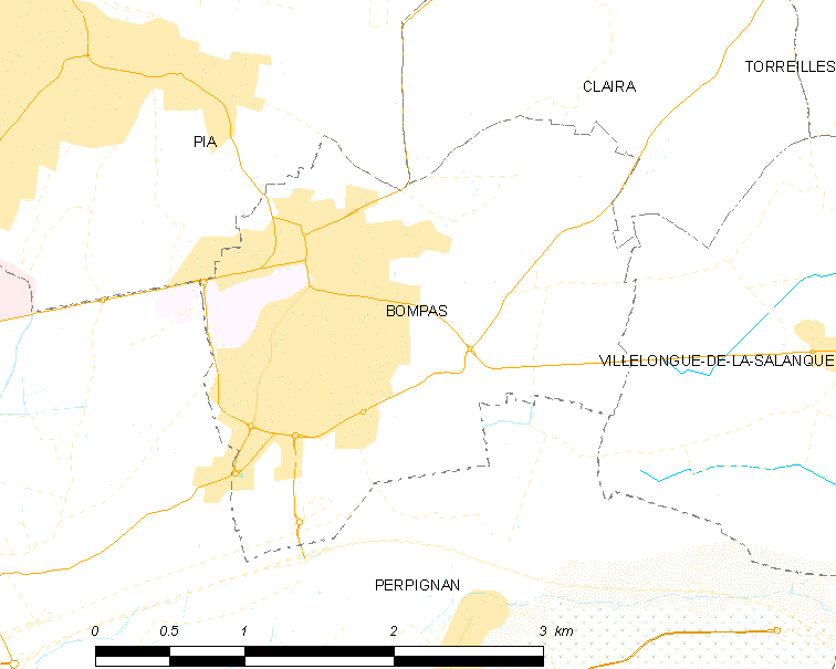 Map of French municipality